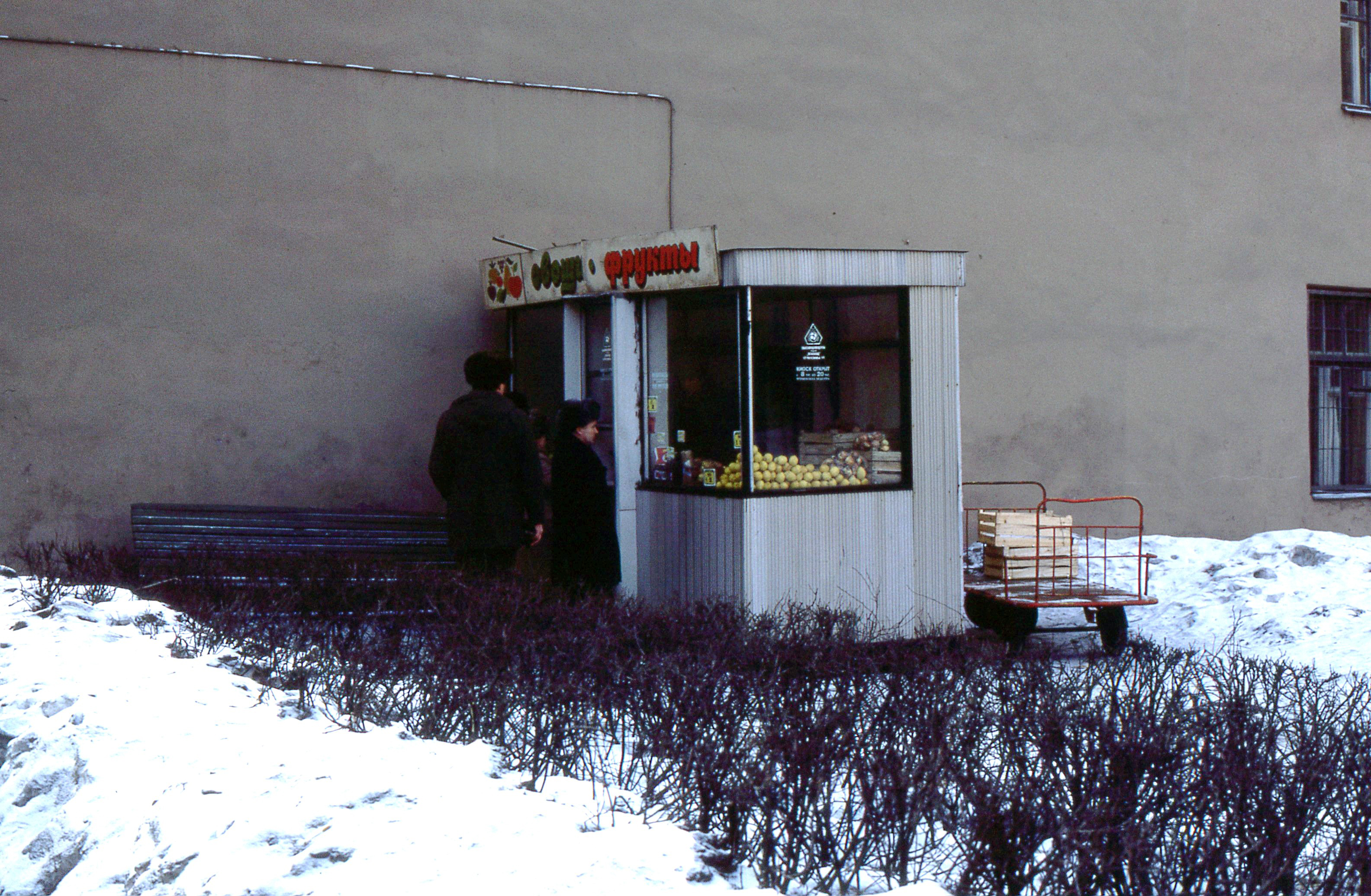 Touristic view